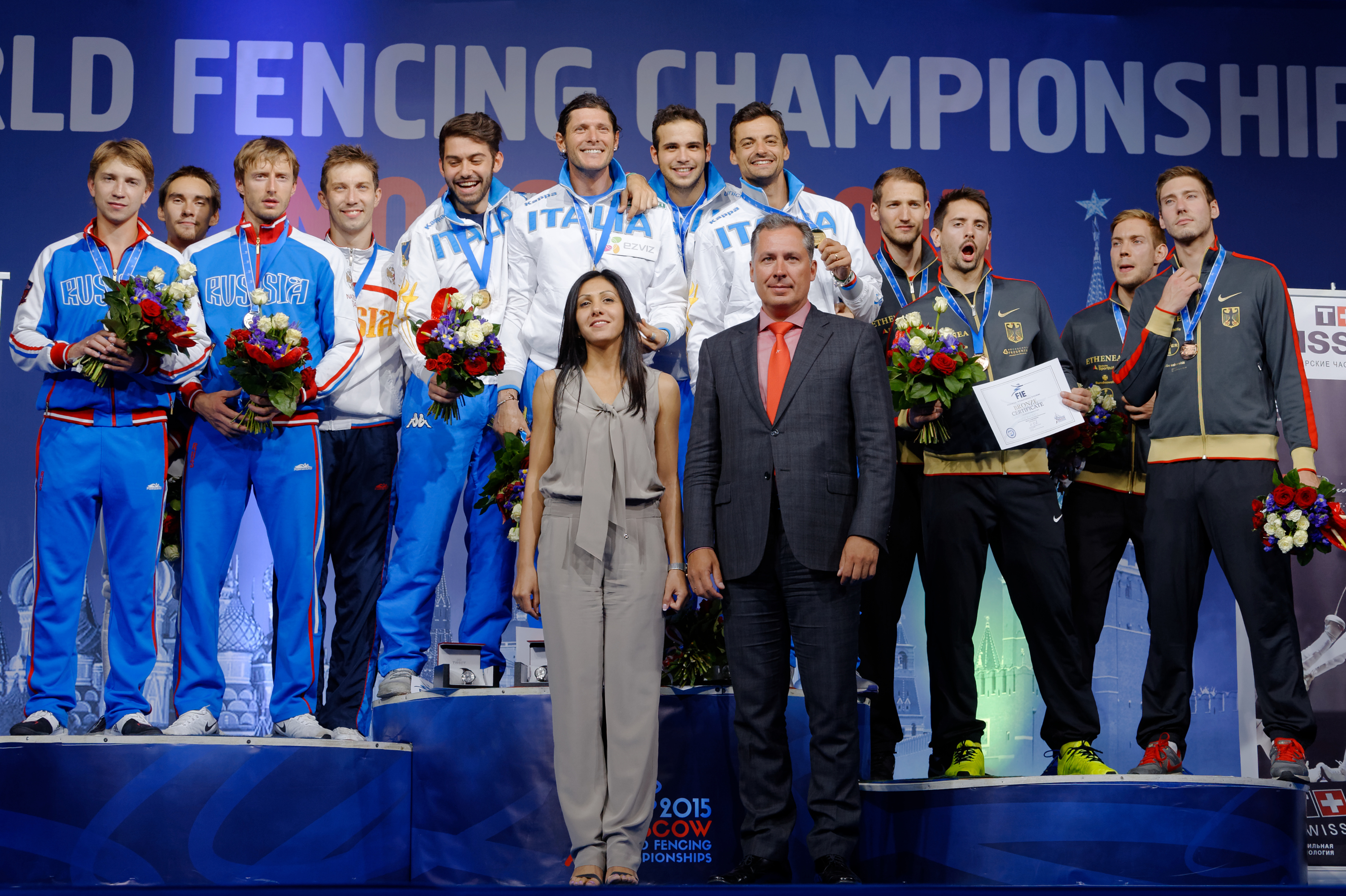 From left to right, Russia, Italy and Germany, along with Karina Aznavourian and Stanislav Pozdniakov at the medal ceremony of the men's team sabre event of the 2015 World Fencing Championships on 17 July 2014 at the Olympic Stadium in Moscow.